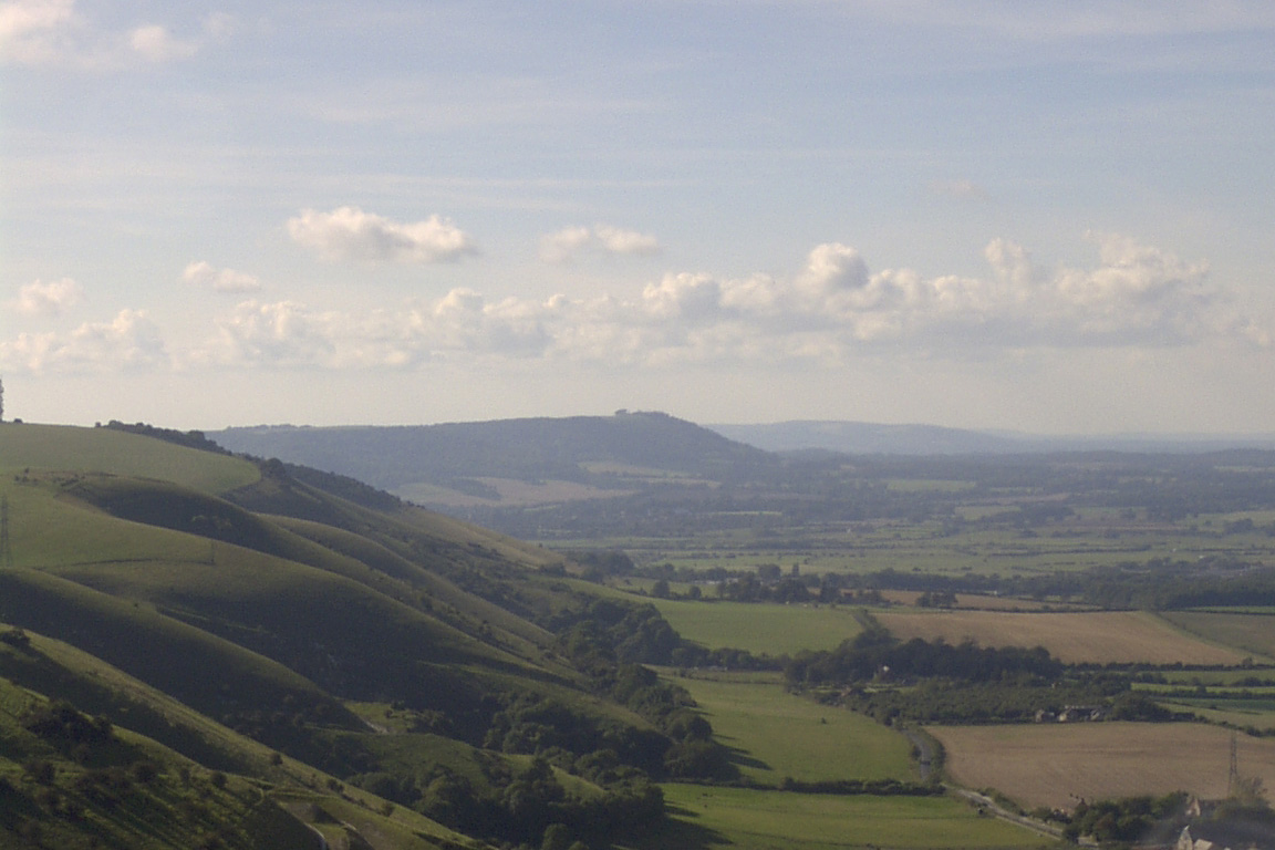 A view of the South Downs in from Devil's Dyke in southern England, near Brighton & Hove.